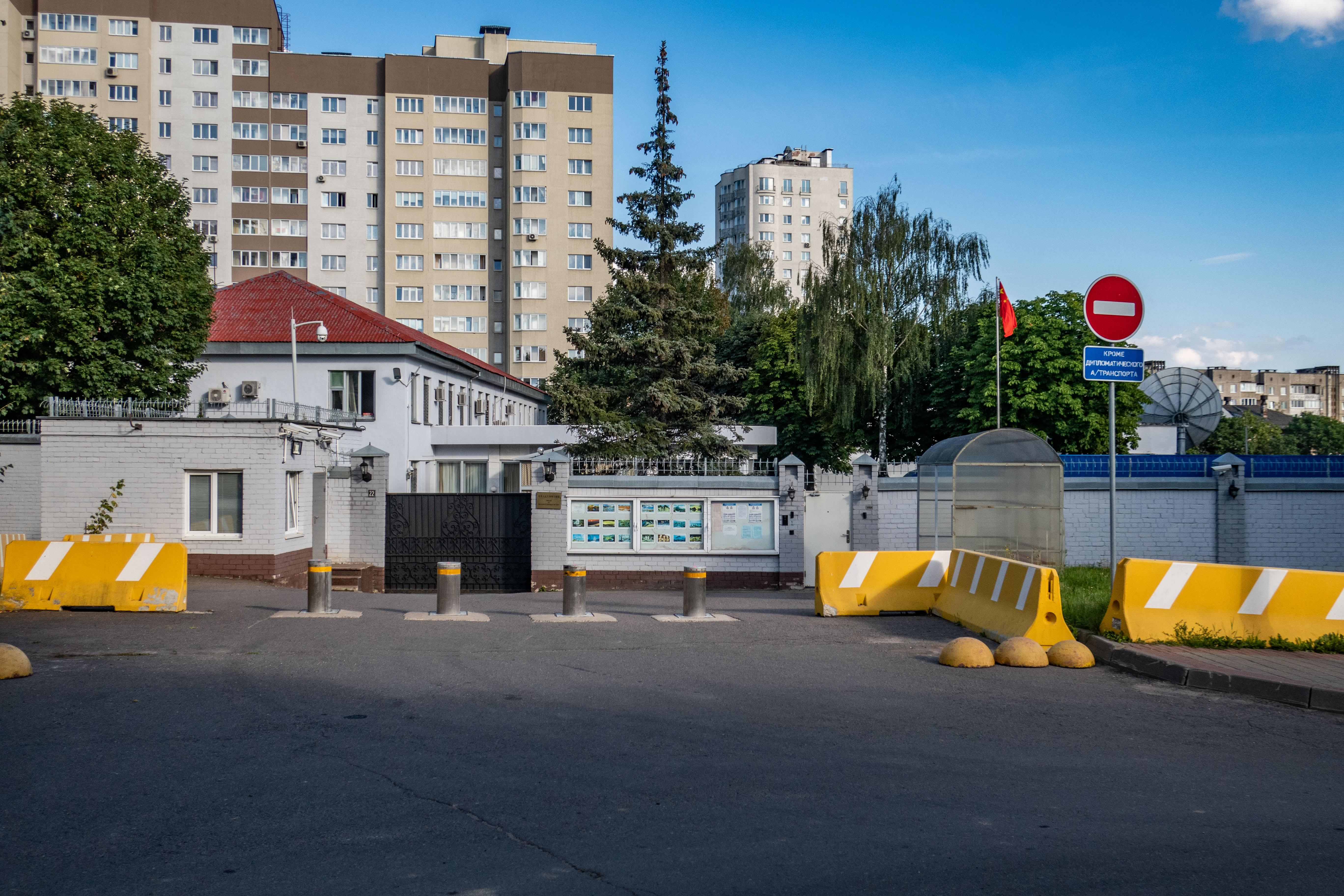 Embassy of the People's Republic of China. Minsk, Belarus